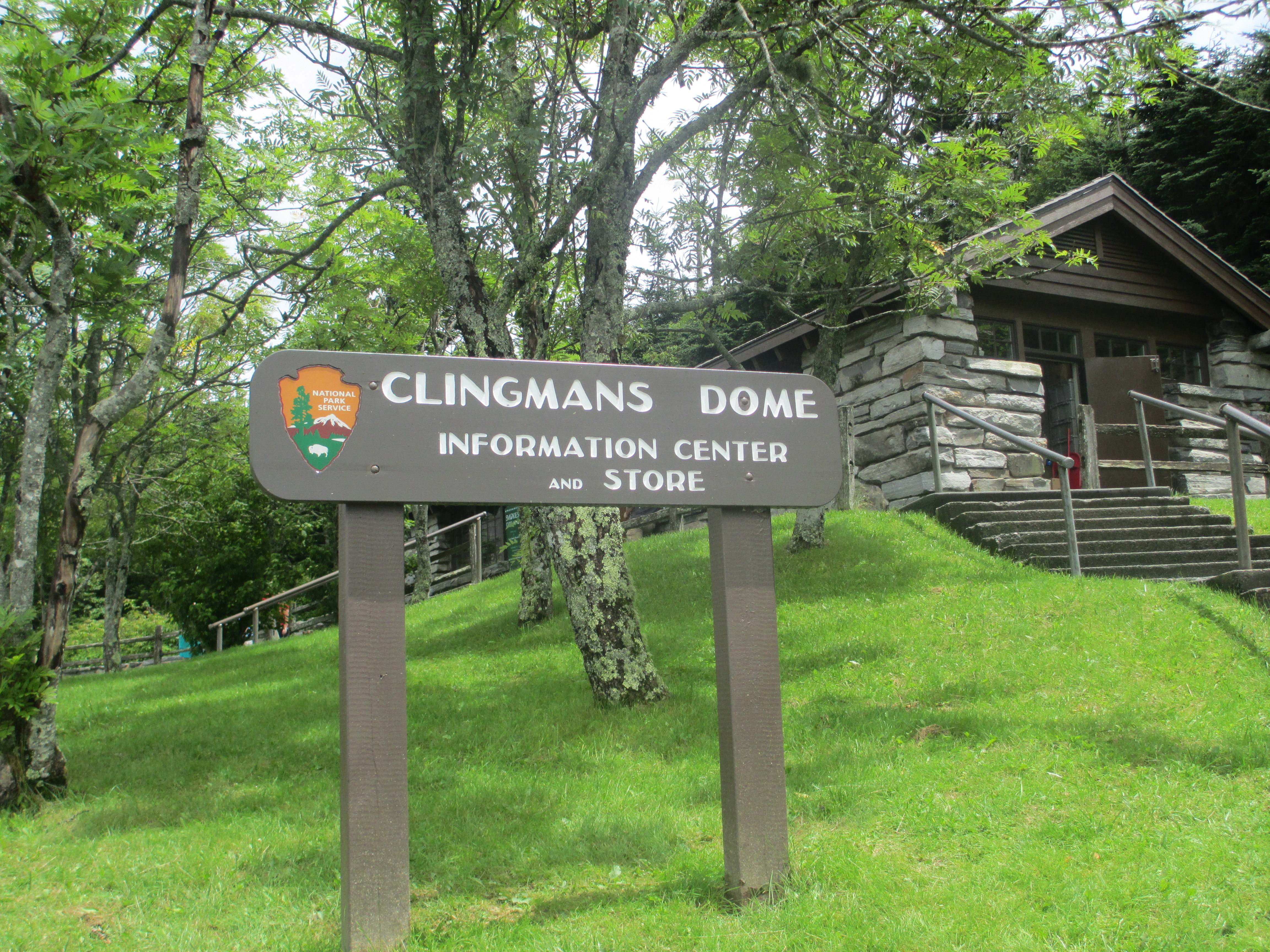 I took photo with Canon camera at Clingman's Dome.